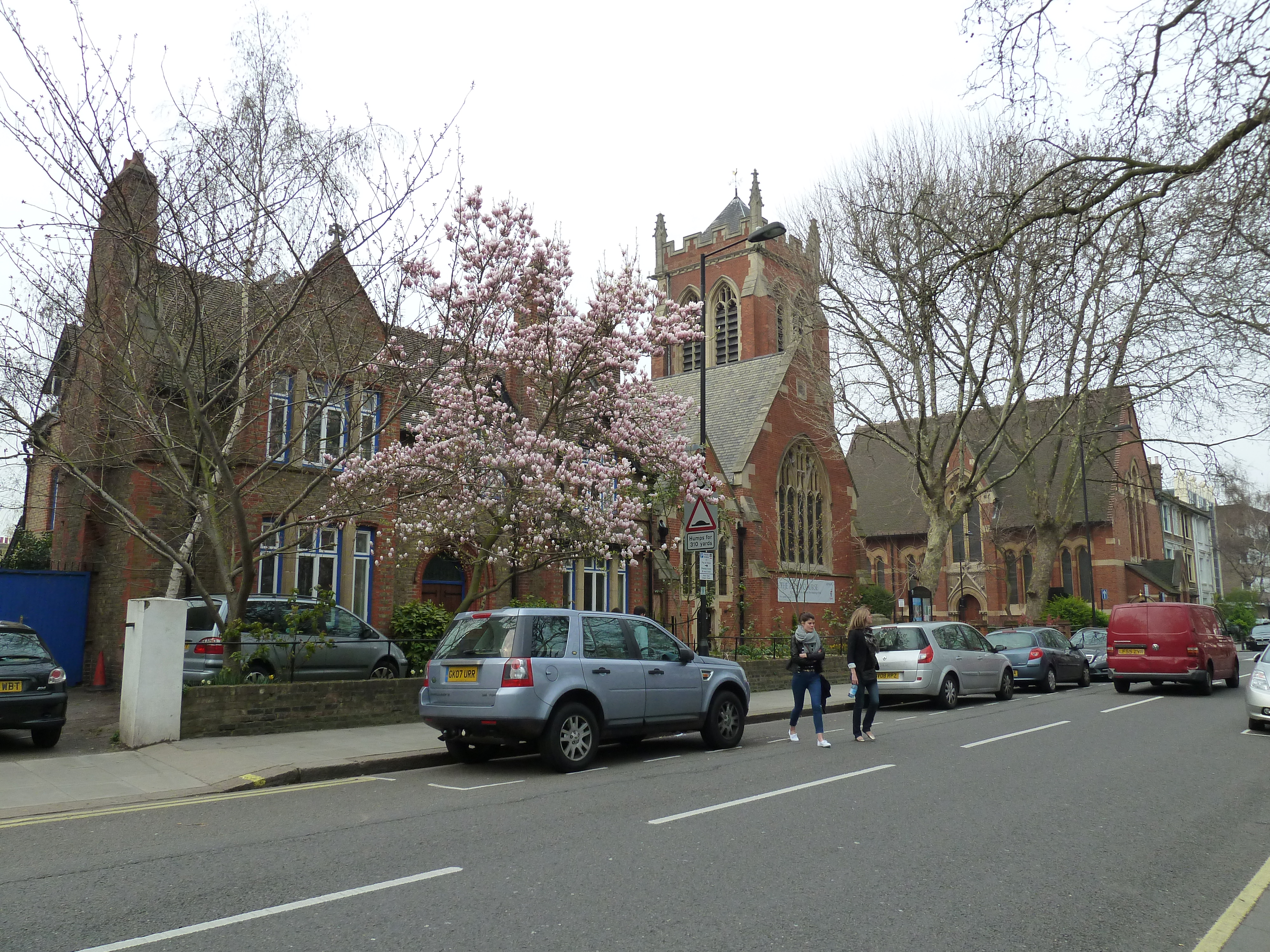 St Dionis Church, Parson's Green